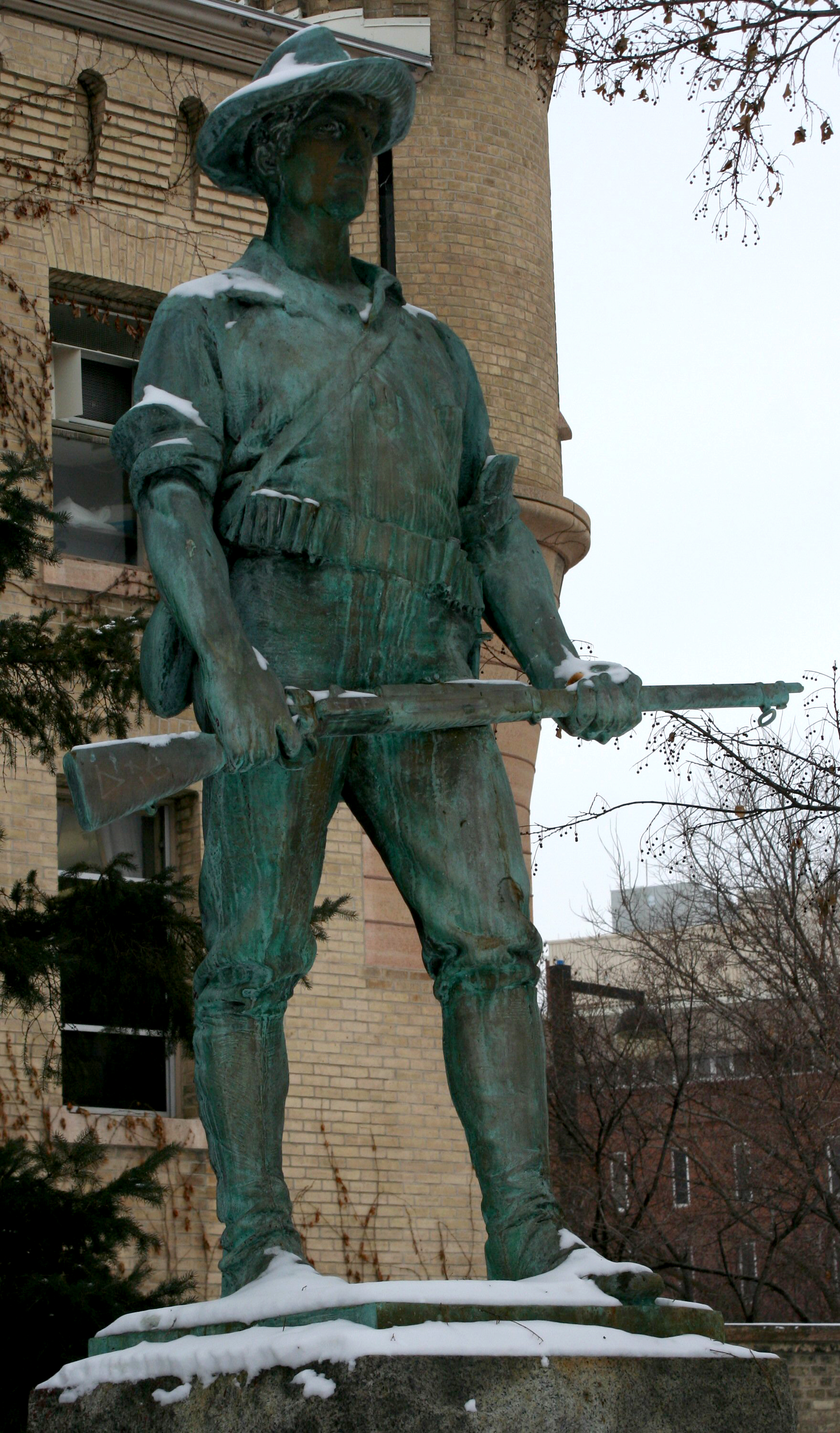 Photo showing "The Hiker" Iron Mike statue on the University of Minnesota Minneapolis campus.